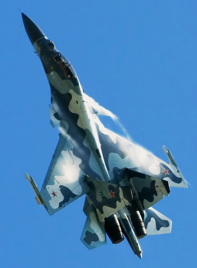 In flight